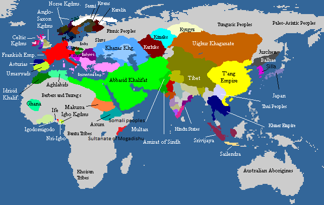 Map of the Old World in 820 AD Abbasid Caliphate Aghlabids Idrisid dynasty Multan Sultans of Sindh Iberian Umayyads